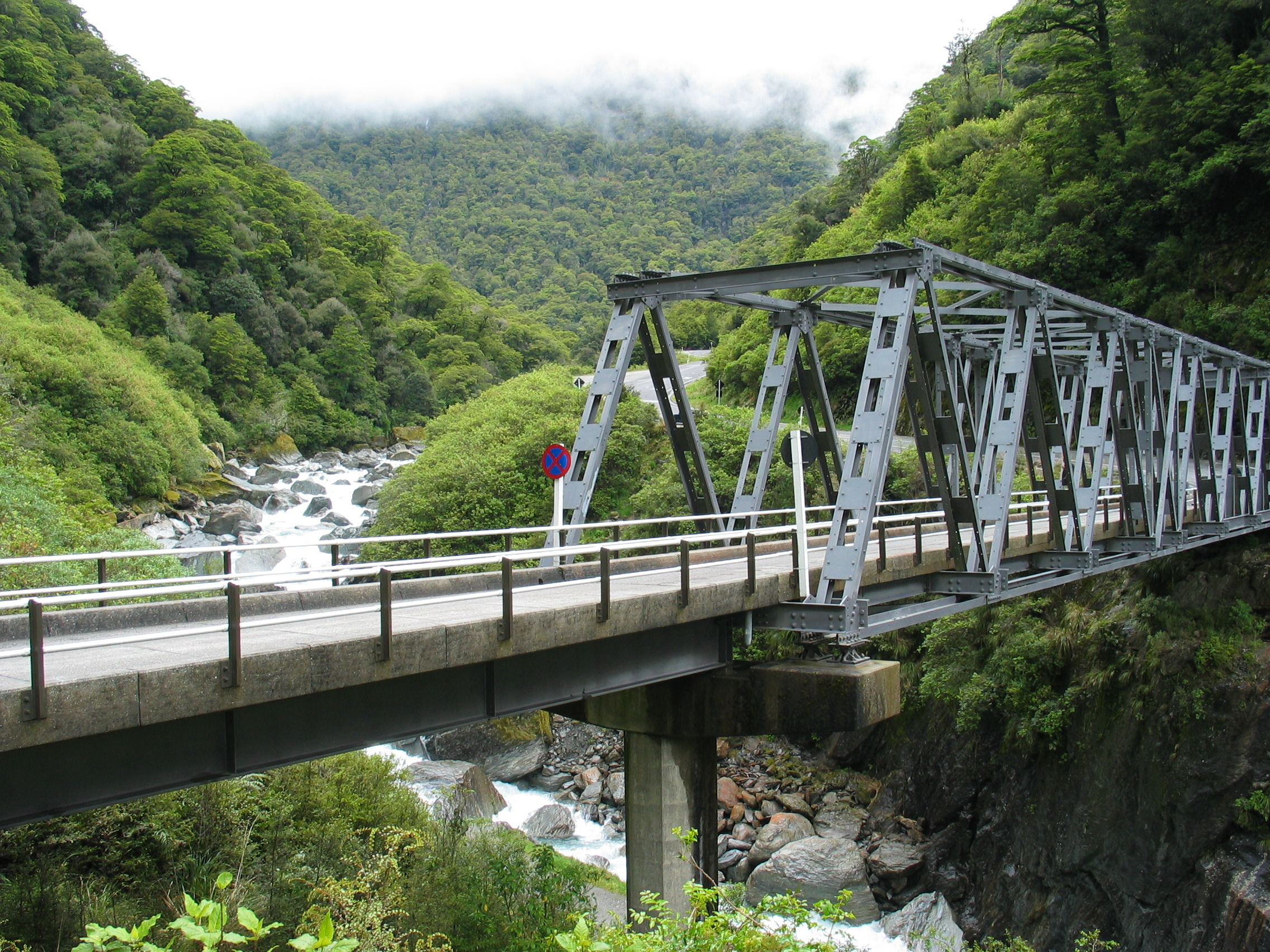 Gates of Haast, Southern Alps, New Zealand.